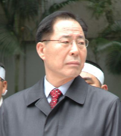 Kwon Young-ghil (권영길), South Korean politician, appeared at Hong Kong, caption "Korean Legistrator" Cropped from a photo at flickr